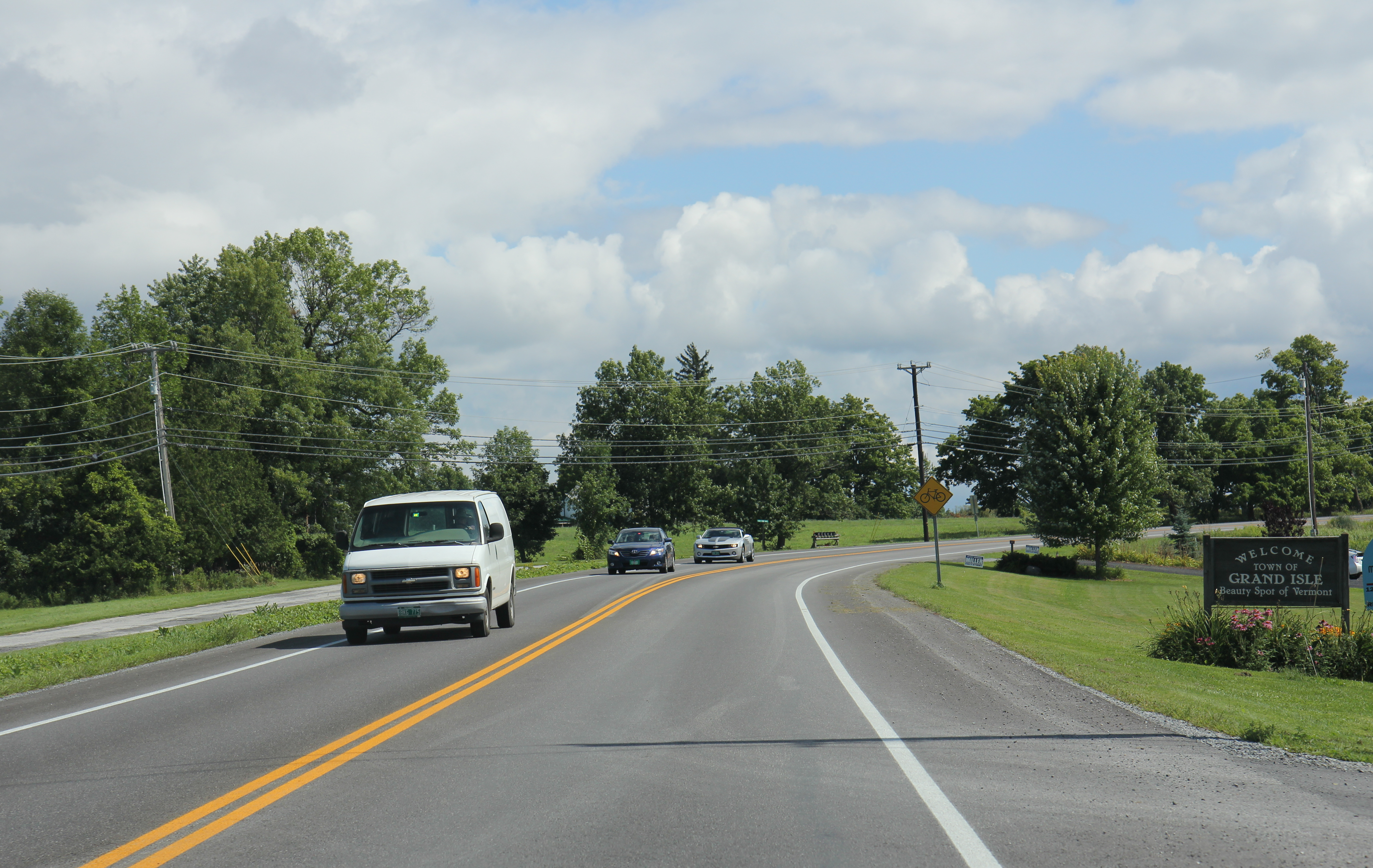 Entering the town of Grand Isle, Vermont.